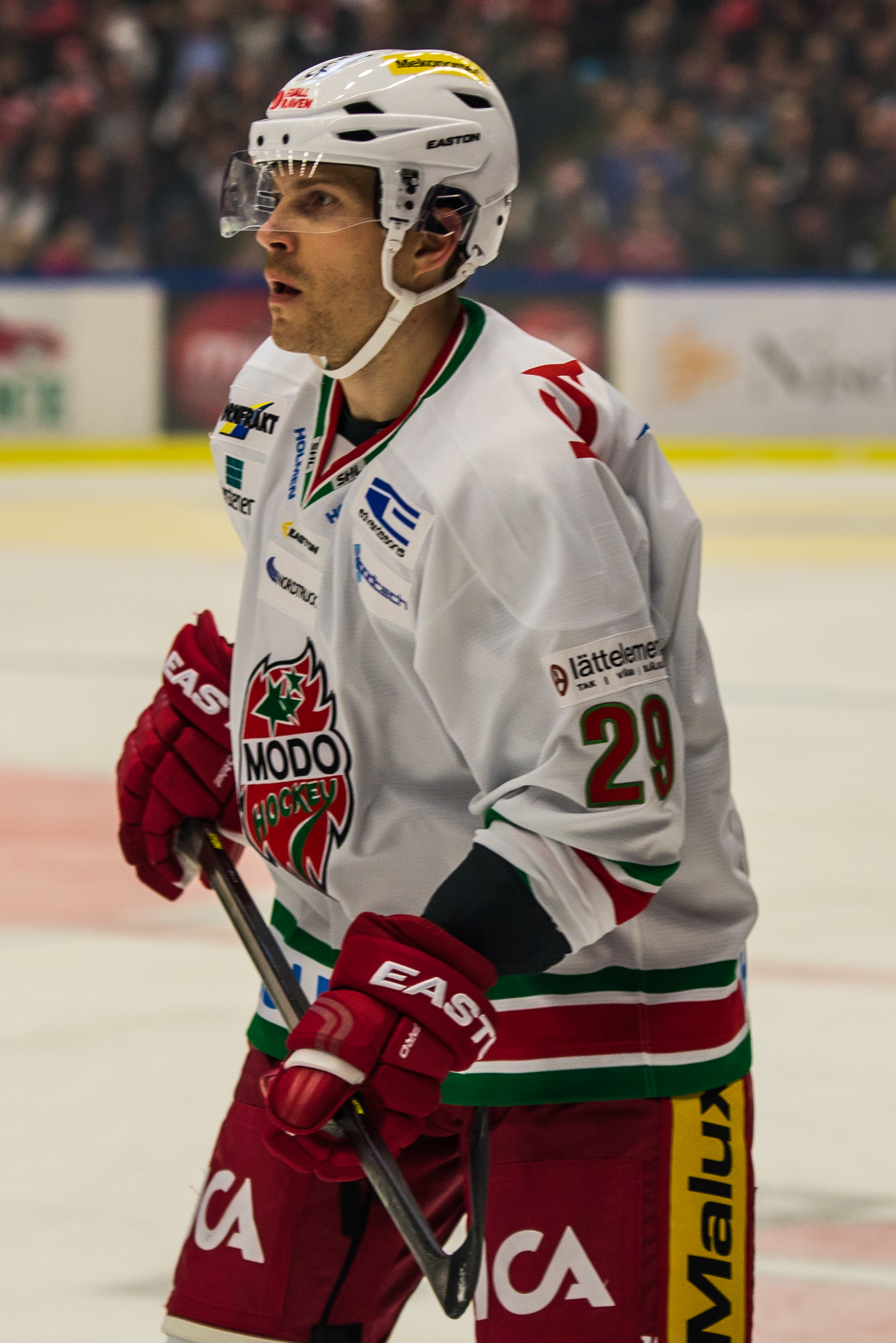 Anssi Salmela playing for MODO Hockey in SHL (Swedish Hockey League – Sweden's highest league) against Örebro HK in Behrn Arena 2013-10-05.